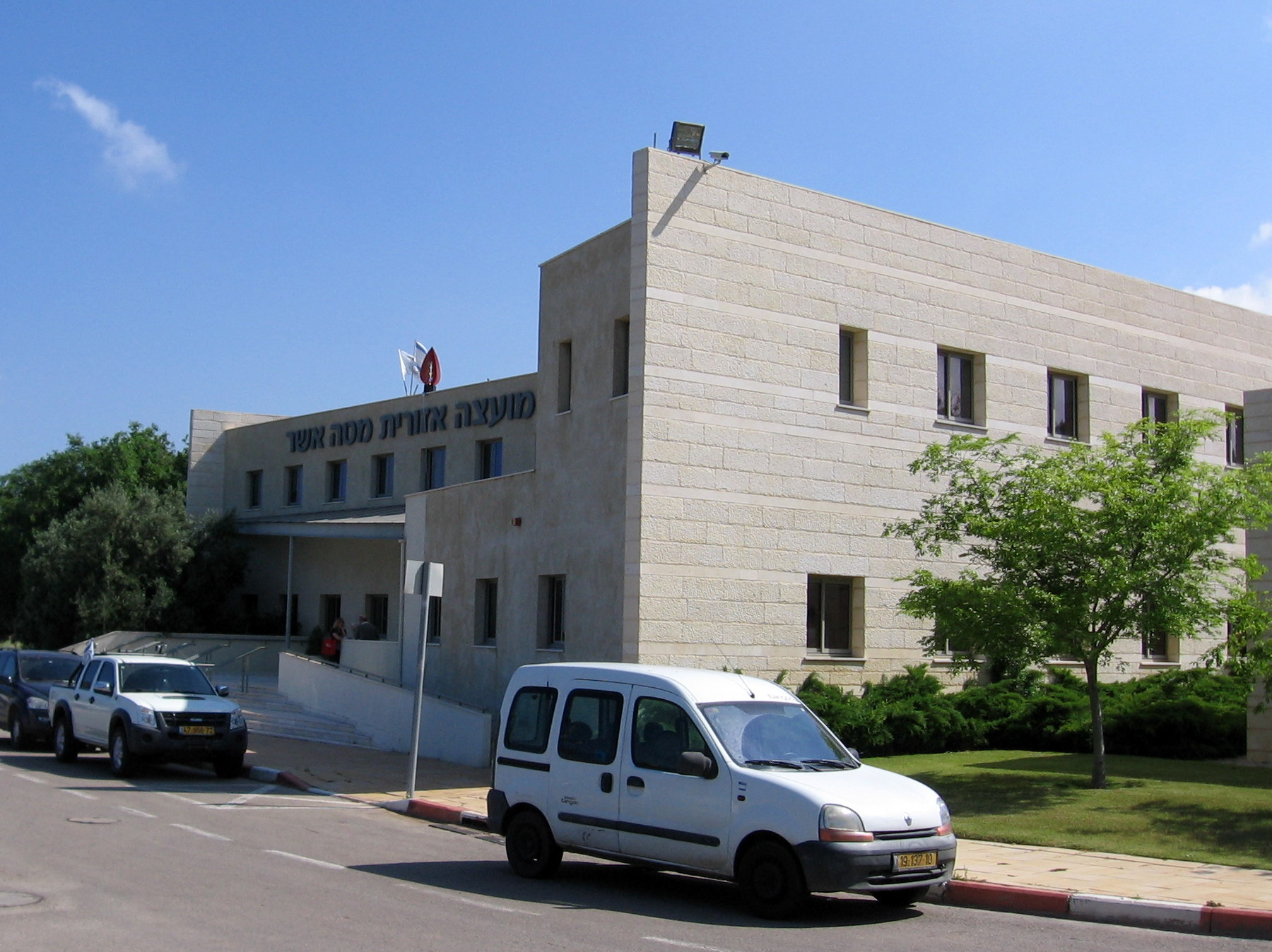 Mateh Asher Regional Council building